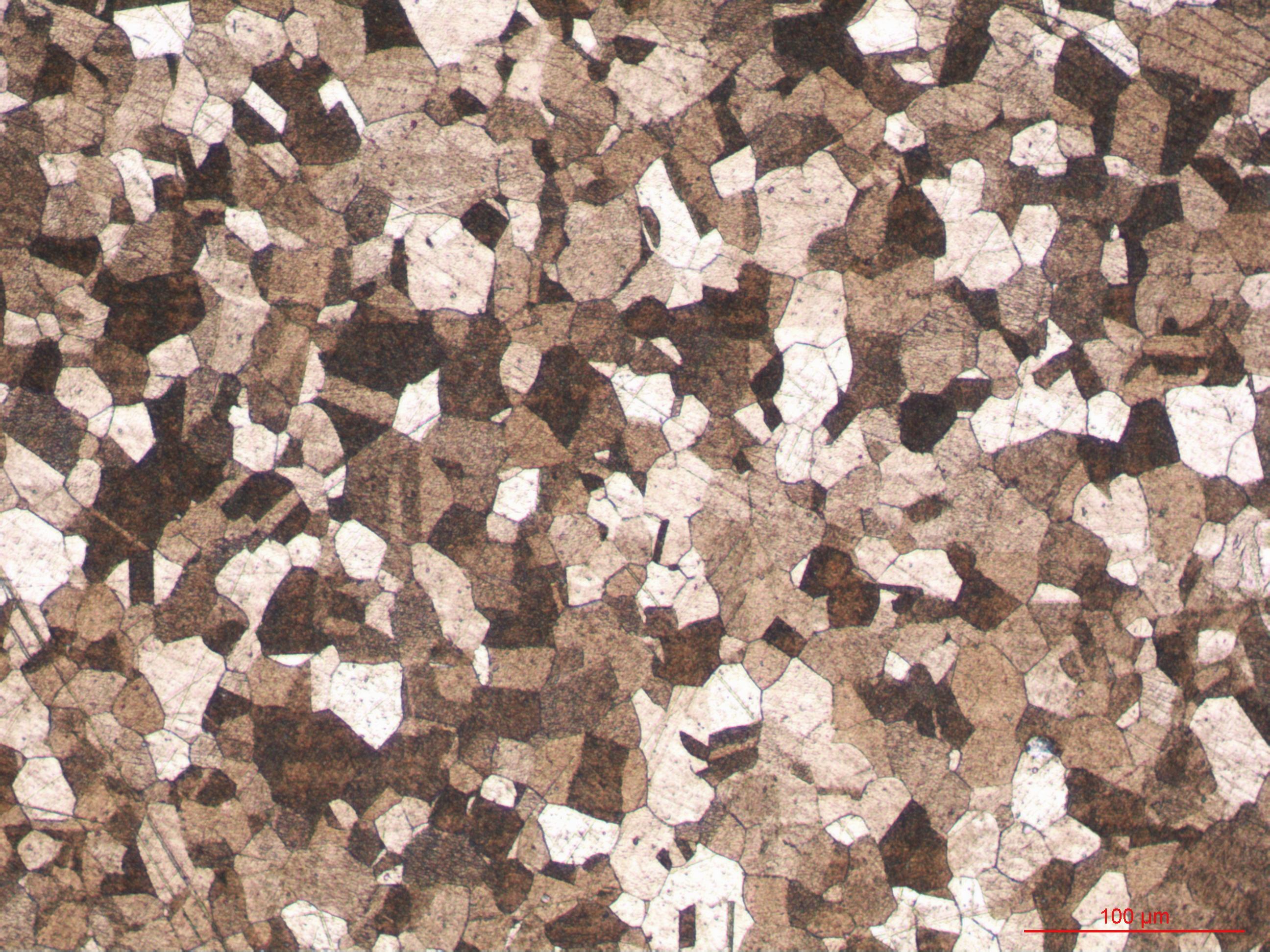 Microstructure of a metallographic section of a gray gold etched chemically with aqua regia (HCl ~75% + HNO3 ~25%).